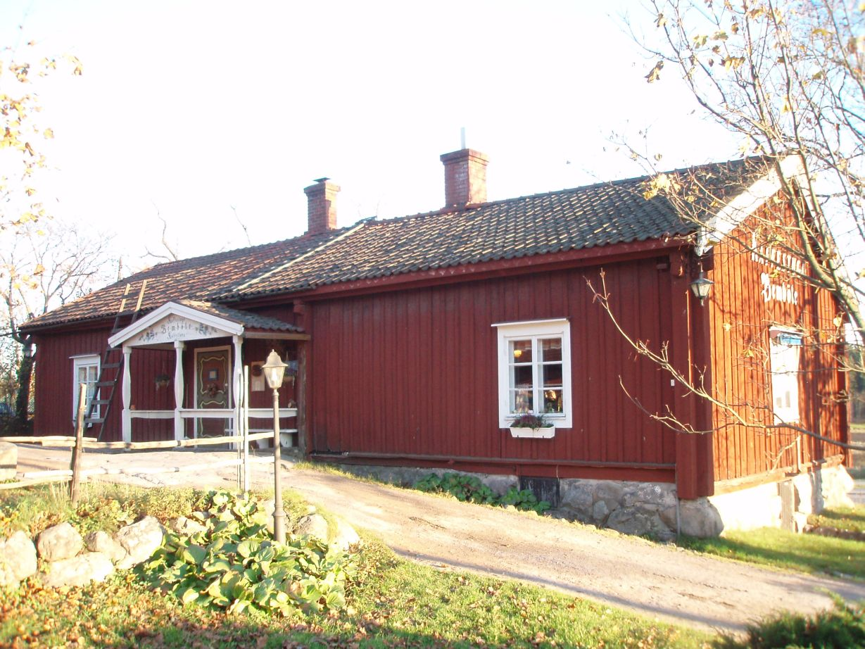 The old inn Bemböle kaffestuga (Bemböle coffee cottage) in Espoo